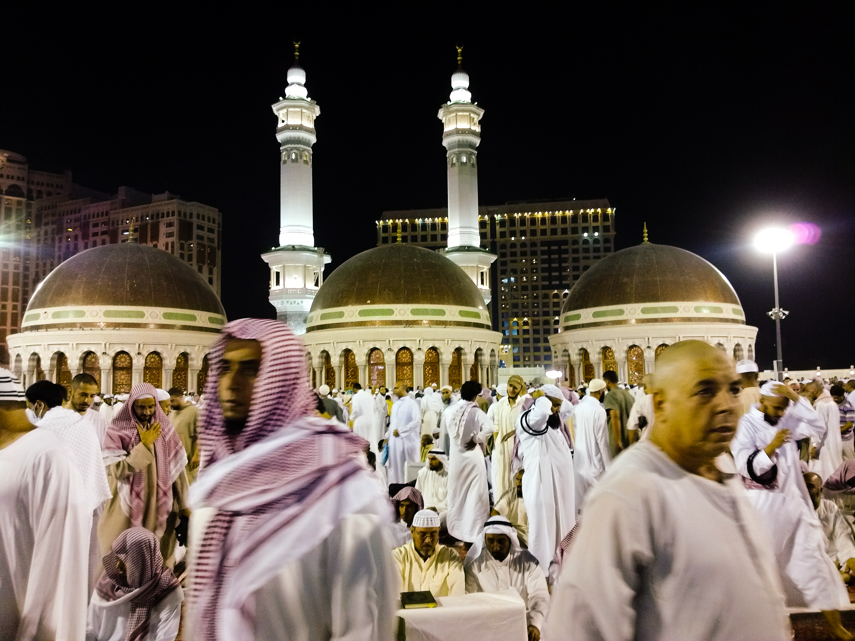 Worshipers mill about after the night Tarawih prayer held during Ramadan on the roof of the Masjid al-Haram in Mecca.